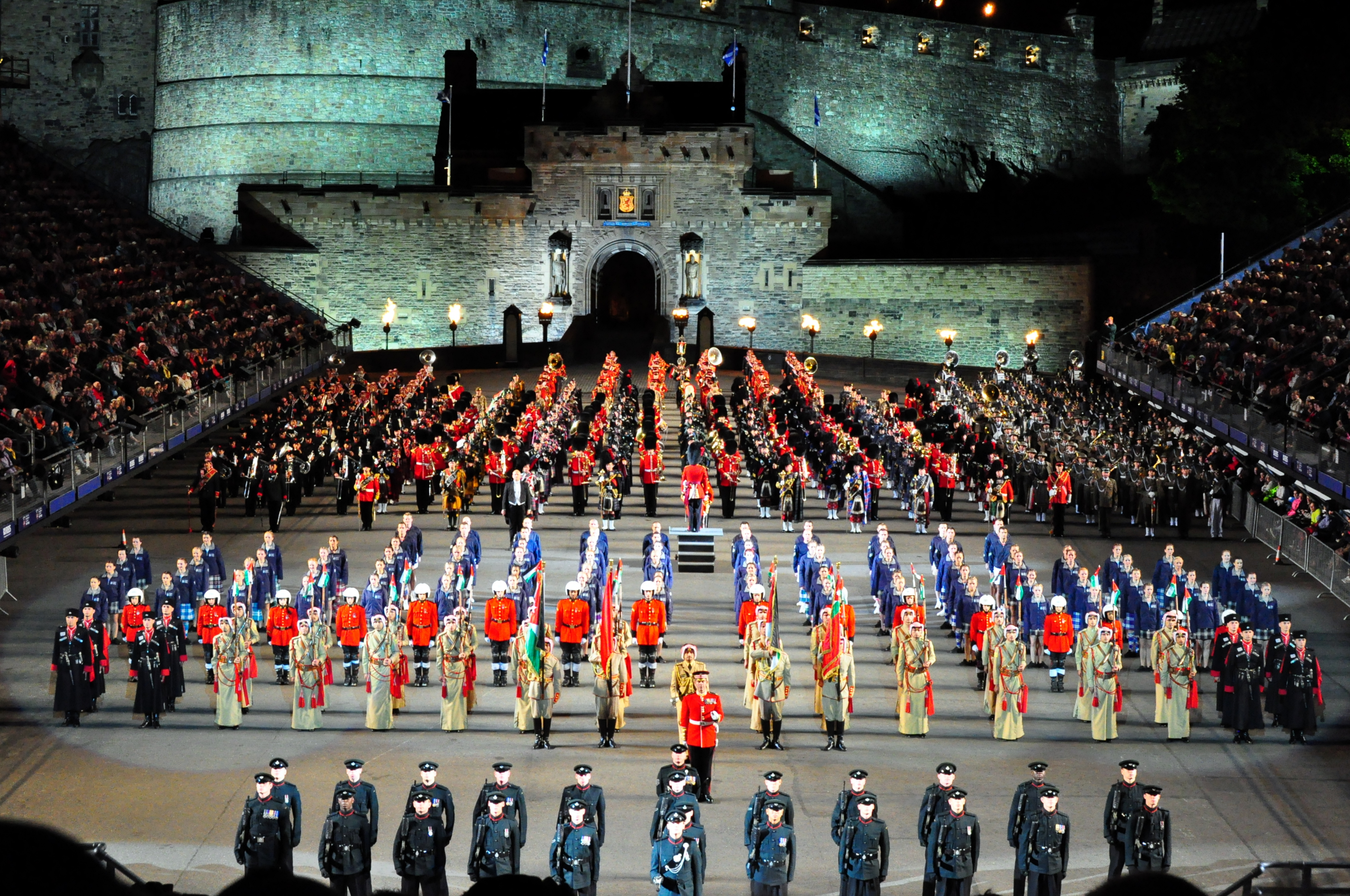 Edinburgh Military Tattoo in 2010.